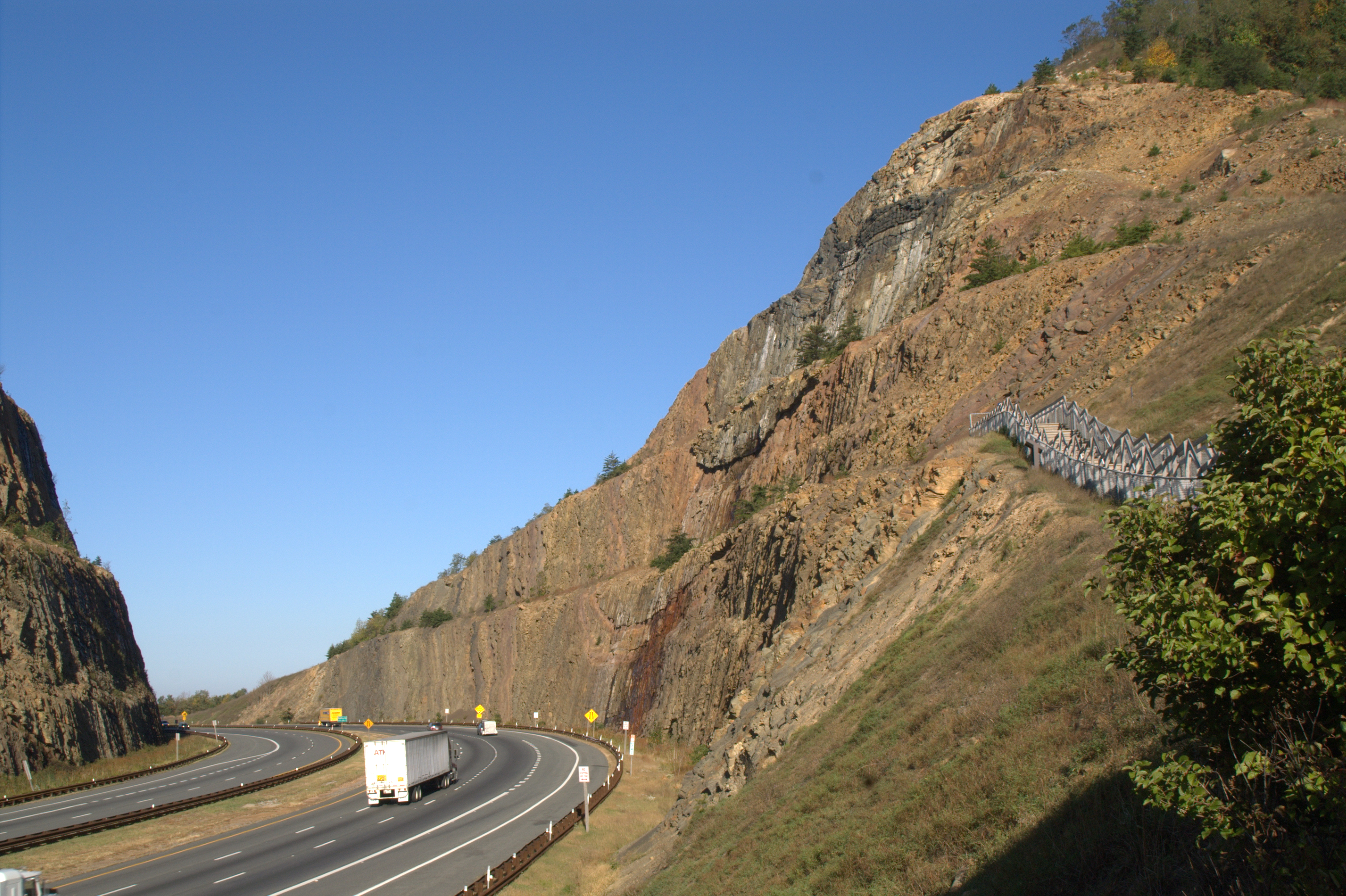 Sideling Hill road cut on Interstate 68